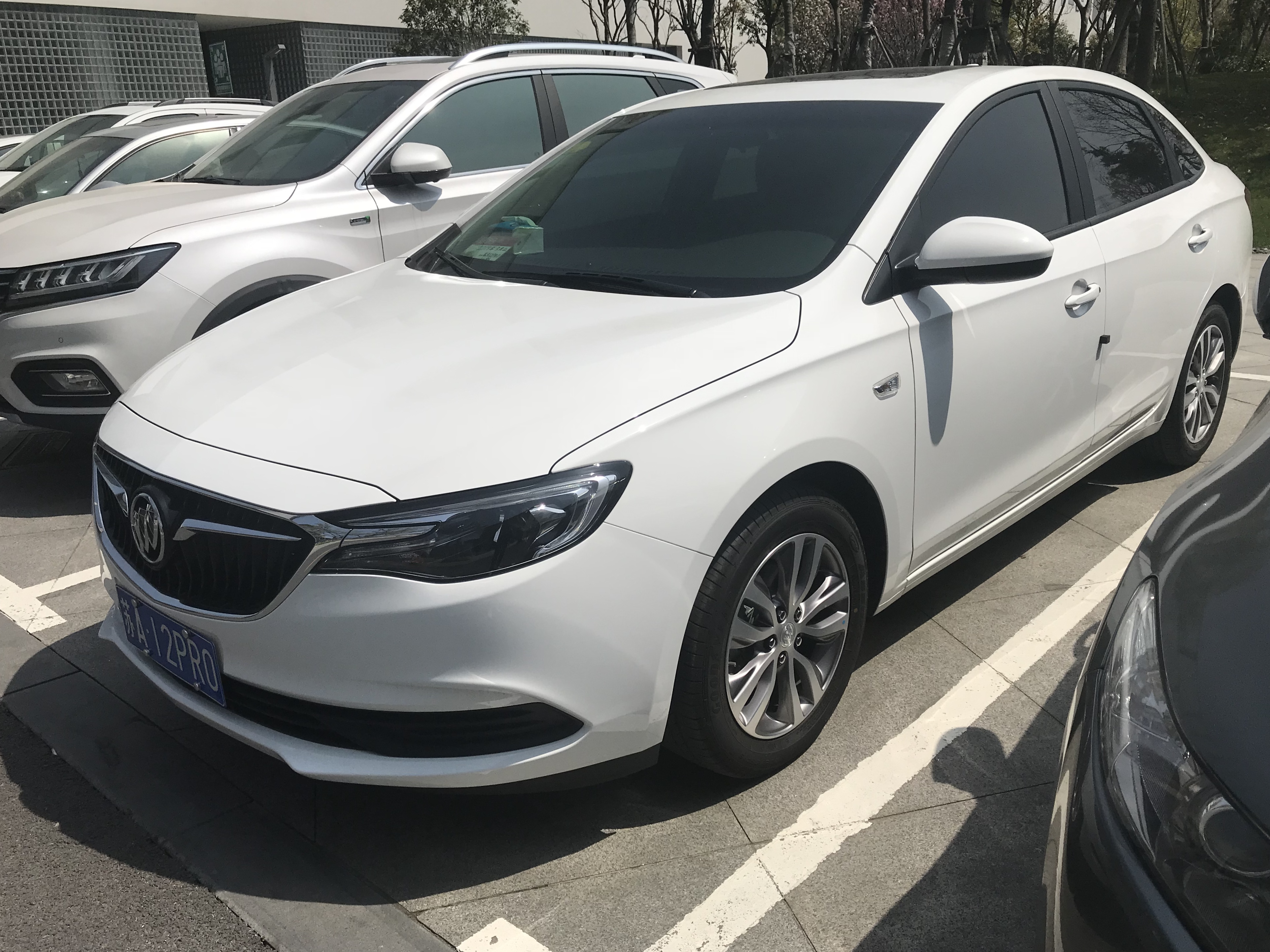 2018 Buick Excelle GT